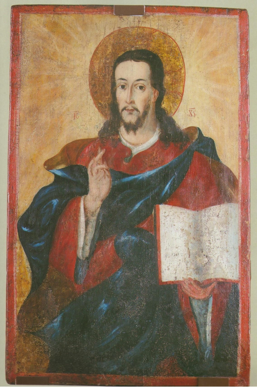 Christ Icon by Toma Vishanov